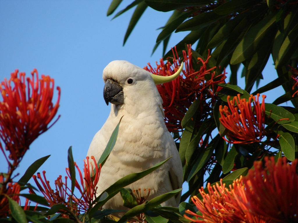 A photograph taking Brisbane city, Queensland, Australia showing: The parrot: Cacatua galerita - Sulphur-crested Cockatoo The tree: Alloxylon flammeum - Queensland Waratah, Australia rainforest tree, The tree is vulnerable in the wild, but luckily it can be found as street tree in Brisbane city and suburbs.